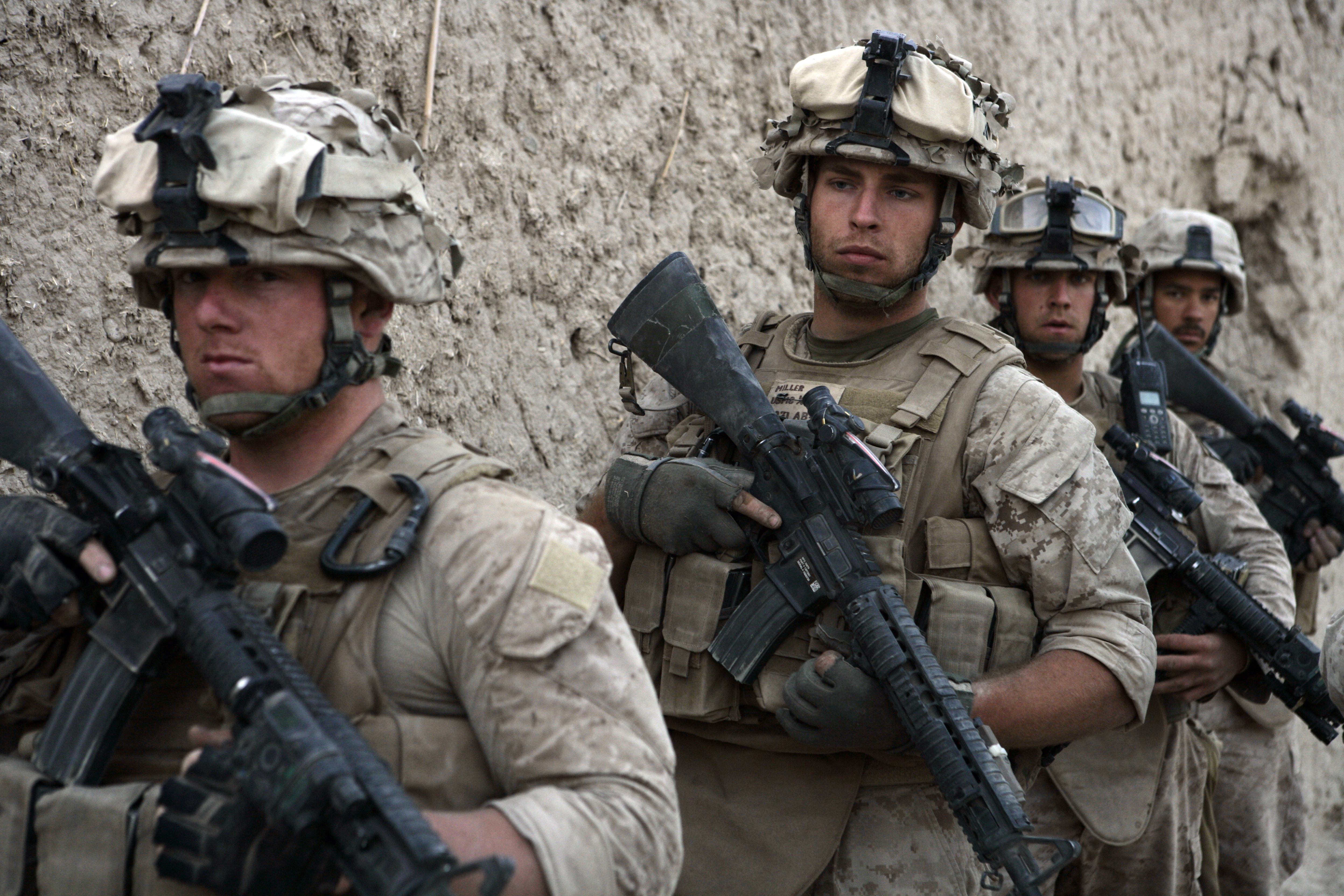 Marines with Bravo Company, 1st Battalion, 6th Marine Regiment, 24th Marine Expeditionary Unit, International Security Assistance Force, operating in Garmsir.Cpl. Andrew Carlson